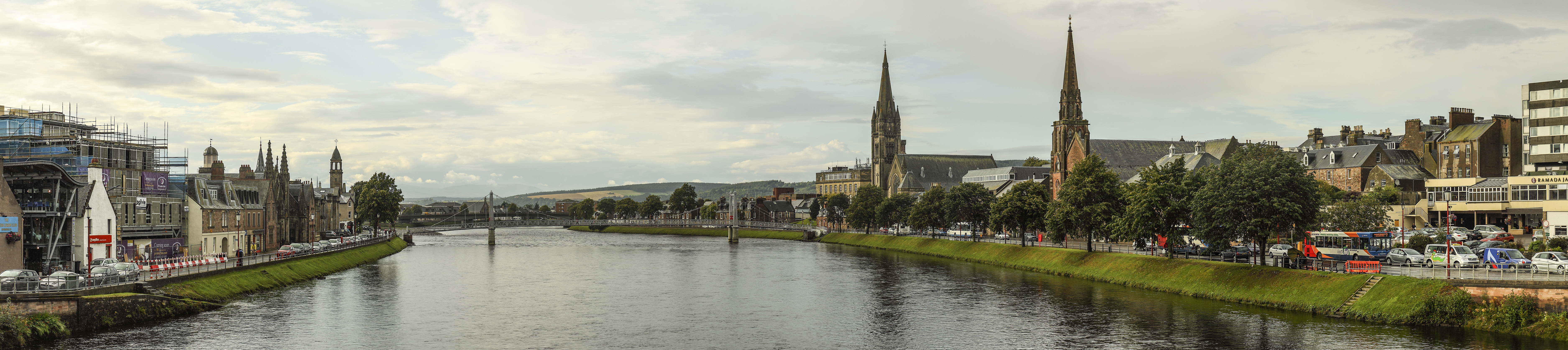 View over Inverness from the river Ness to the North